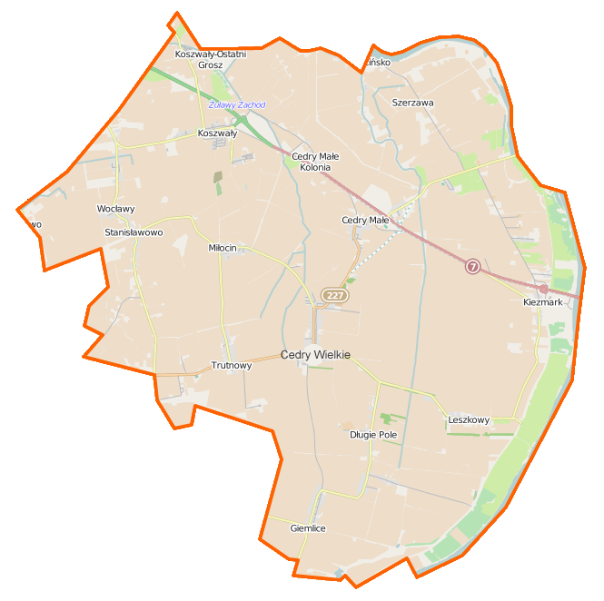 Map of Gmina Cedry Wielkie, Poland This map of Cedry Wielkie(gmina) was created from OpenStreetMap project data, collected by the community. This map may be incomplete, and may contain errors. Don't rely solely on it for navigation.